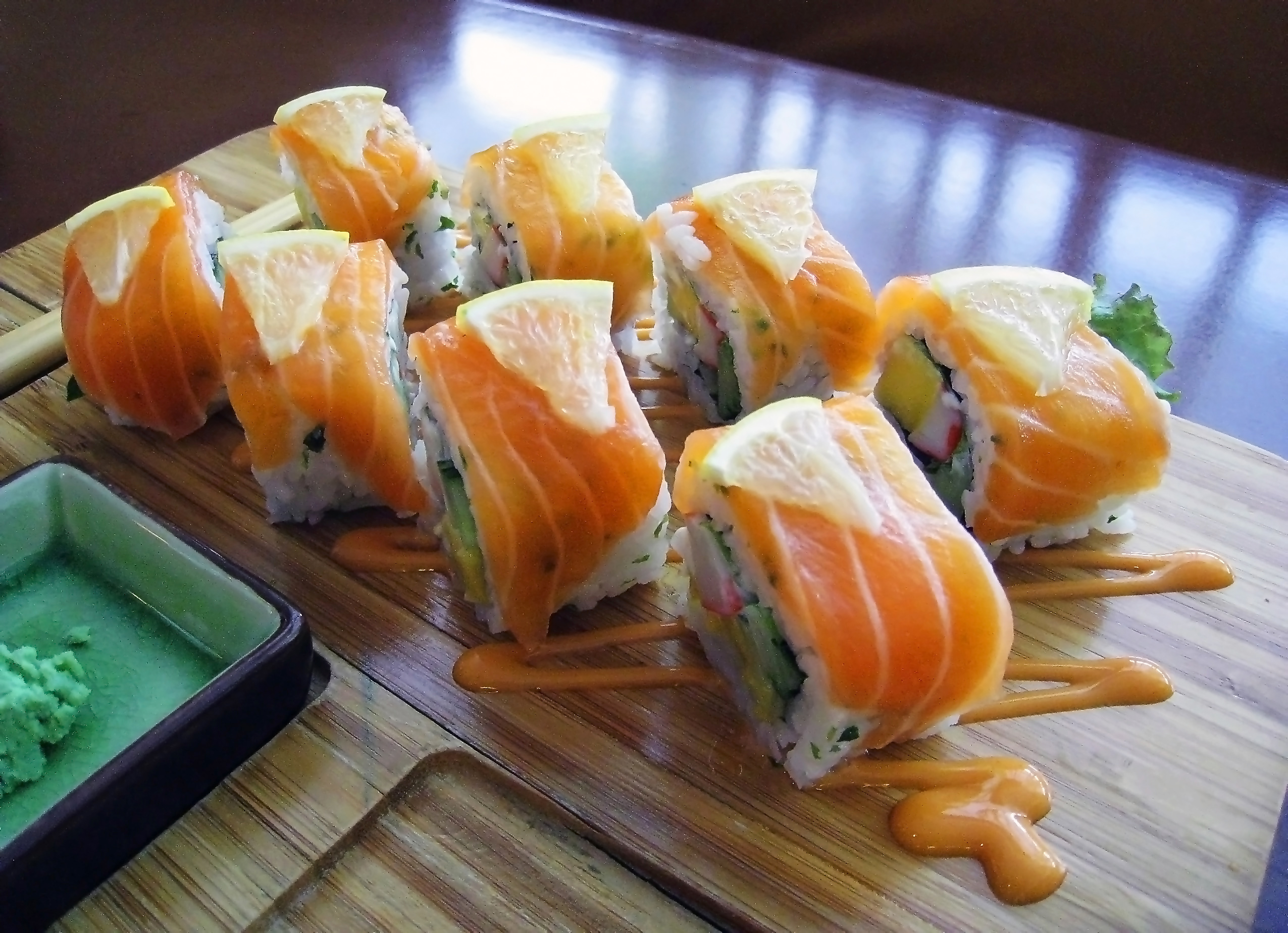 Norwegian Roll Salmon Sushi, uramakizushi topped with Norway salmon, lemon and mayonnaise at Million Dollar Japanese Restaurant, Pasar Festival Kuningan, Jakarta, Indonesia.